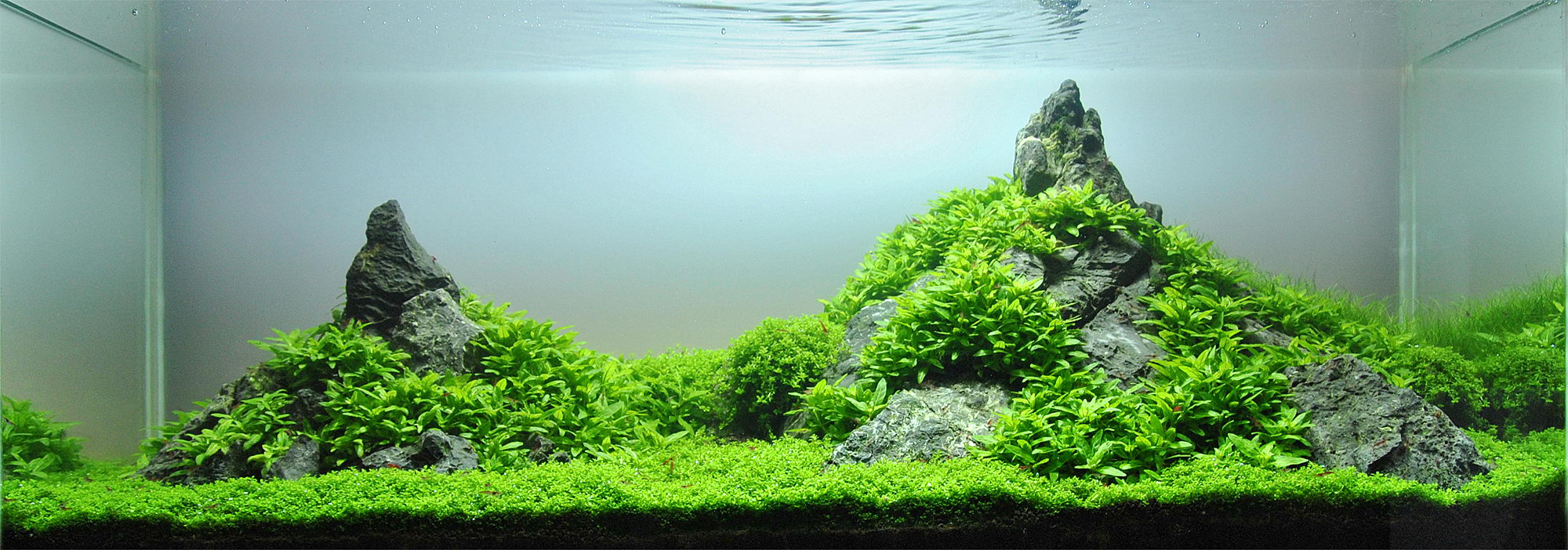 “Tales Creek” 100×40×40 cm Aquascape The hardscape of this layout is really imposing. Seiryu stones were put together to form two mountain tops that stand out from the dense plant growth. The minimalistic plant choice limited to Staurogyne repens and Hemianthus callitrichoides “Cuba” gives this tank an incredible sense of harmony. Mind you, this aquascape is Lennart’s first work – an incredible accomplishment.